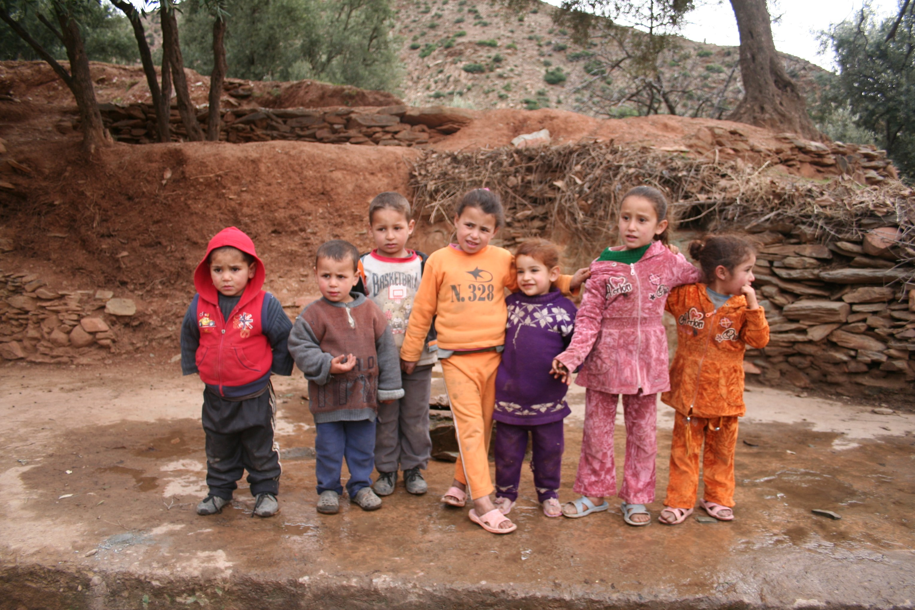 Photo taken near the Atlas Mountain Range, Morocco